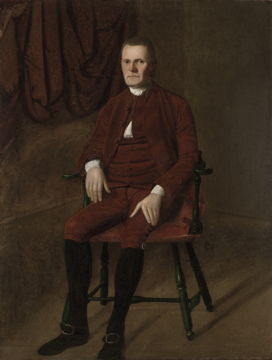 "Roger Sherman (1721-1793), M.A. (Hon.) 1768"